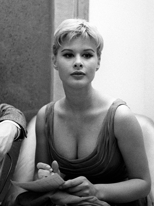 The Italian actress Marisa Allasio (born Maria Luisa Allasio) is wearing a large collar clothing; the actress is in the living-room of the Italian director Pasquale Festa Campanile, on the occasion of a meeting of personalities of the world of cinema and television. Rome (Italy), June 1957